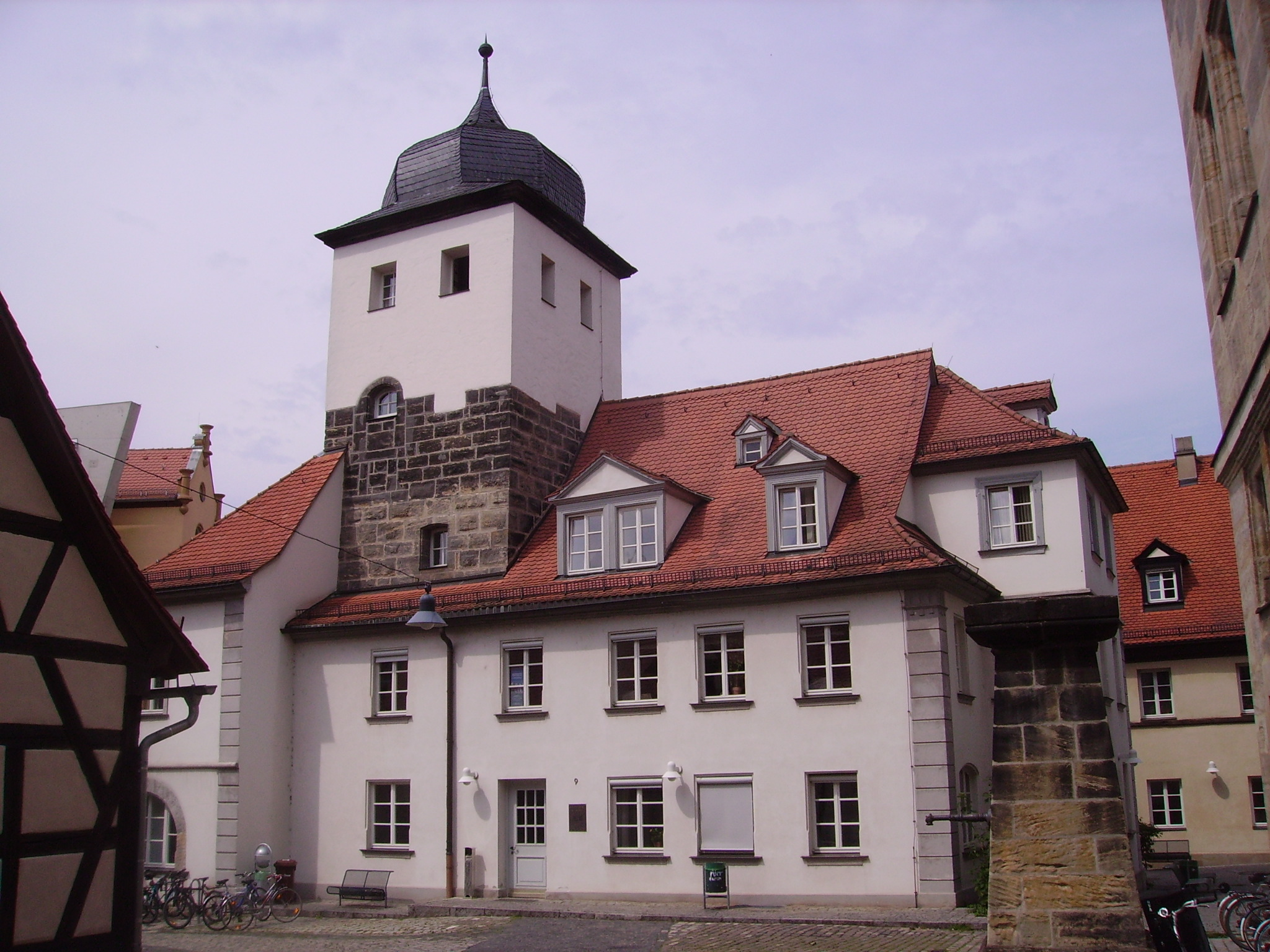 Universität Bamberg, Germany